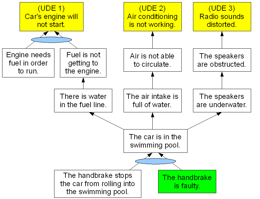 Current Reality Tree showing diagnosis of multiple symptoms - or undesired effects (UDEs) - relating to car/automobile problems. Root cause revealed to be faulty handbrake.